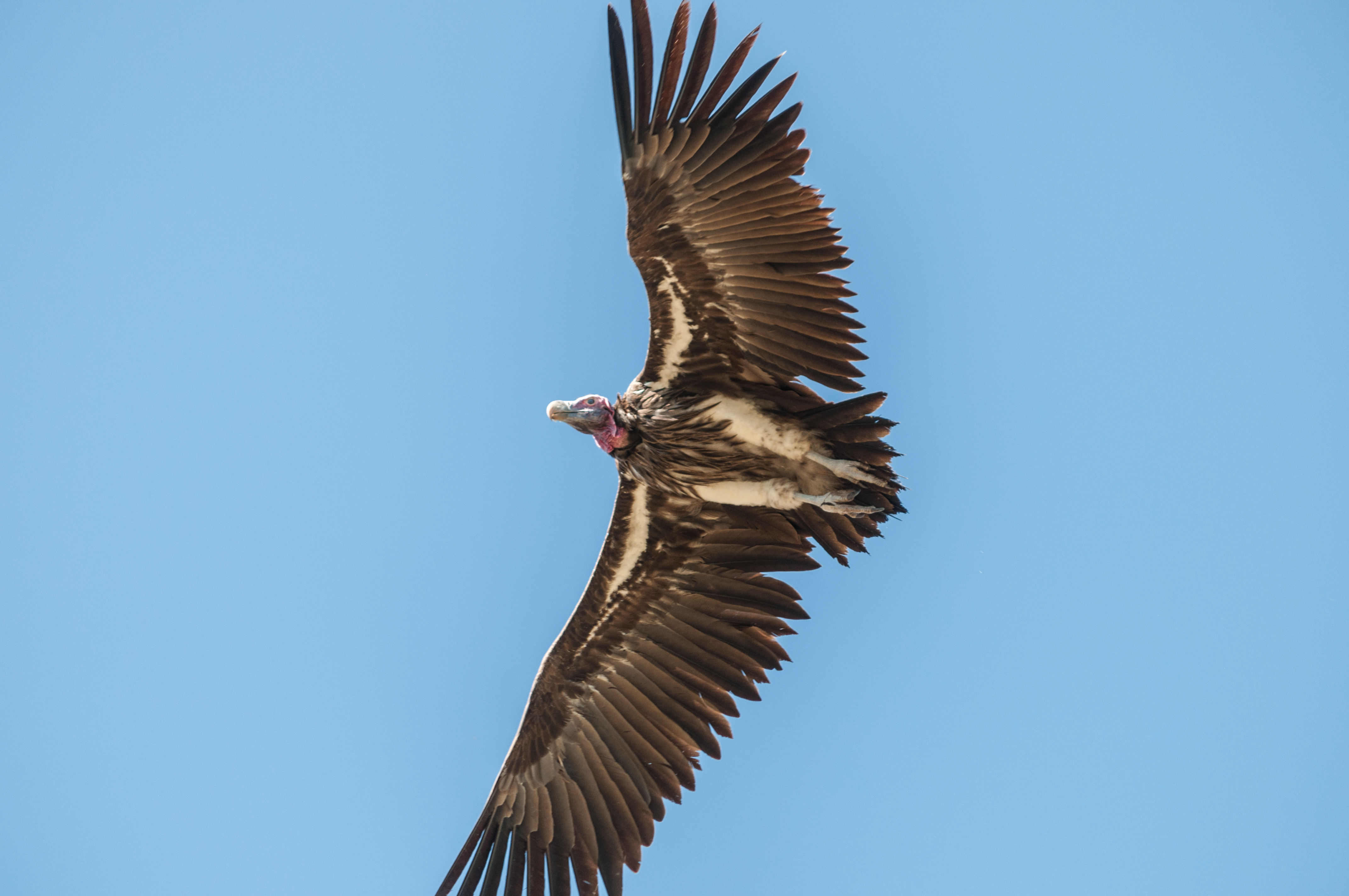 Shows Aegypius tracheliotus in flight. Fotographed close to Omaruru, Namibia.